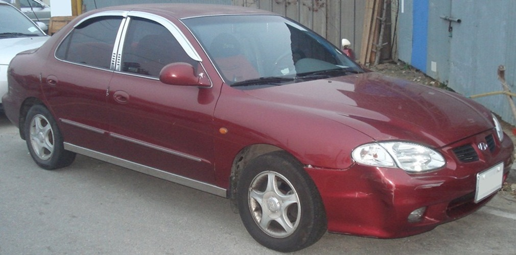 Hyundai All New Avante